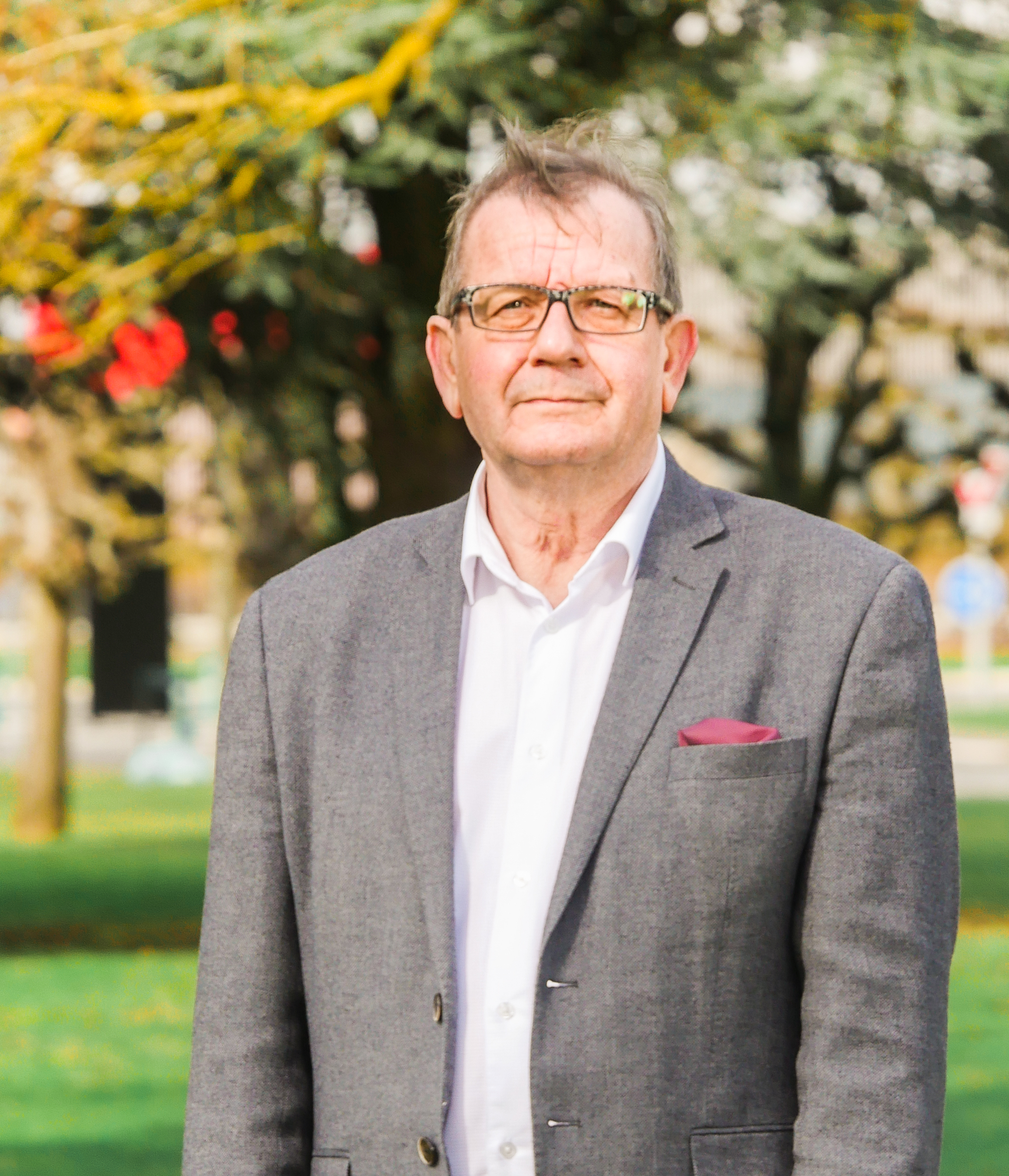 Depicted person: Alain Bruneel – member of French National Assembly